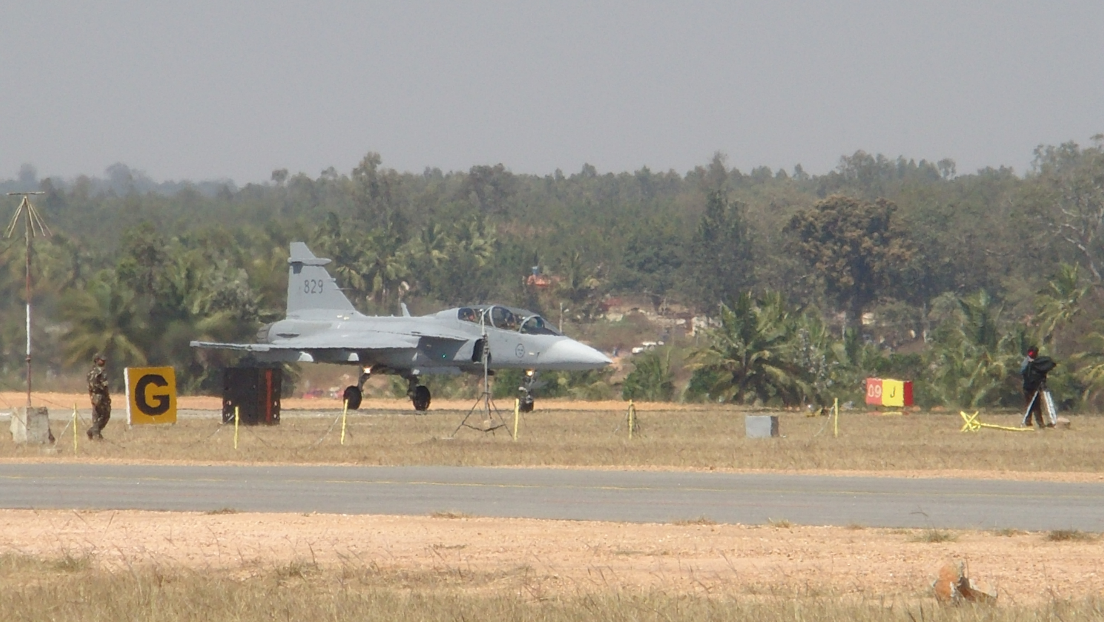 Swedish Air Force Saab 39 Gripen (S/N 39829) ready for take off at Aero India 2011